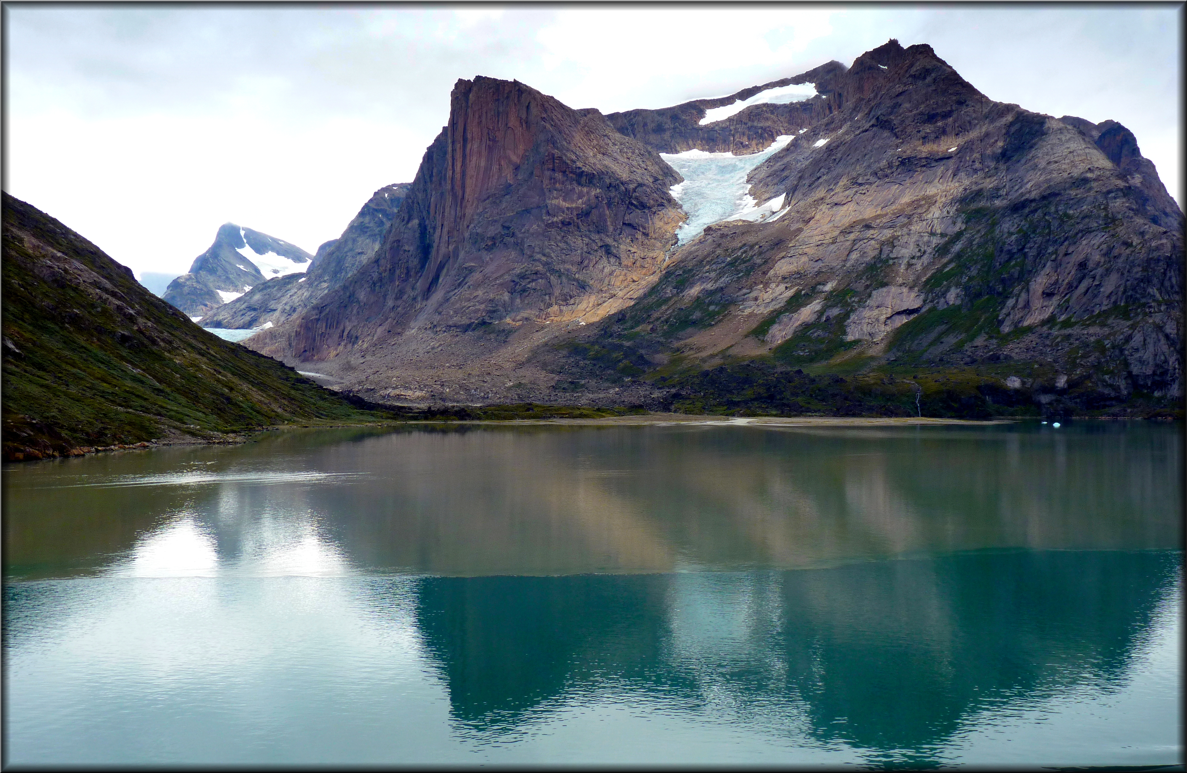 Greenland, North America